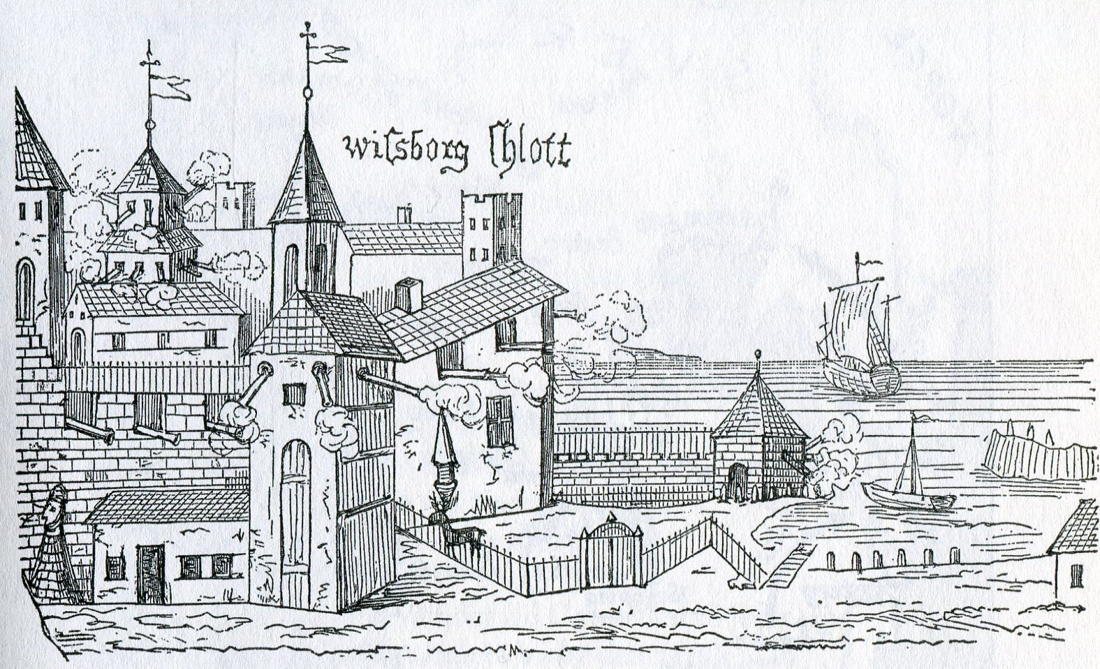 Early 17th-cenrury drawing of Wisborg (Visborg) Castle in Gotland, Sweden, today in ruins